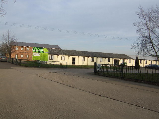 Wornal Industrial Park near Worminghall. On site of former RAF base